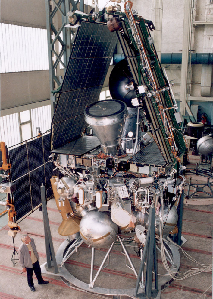 Mars 96 at the assembly building